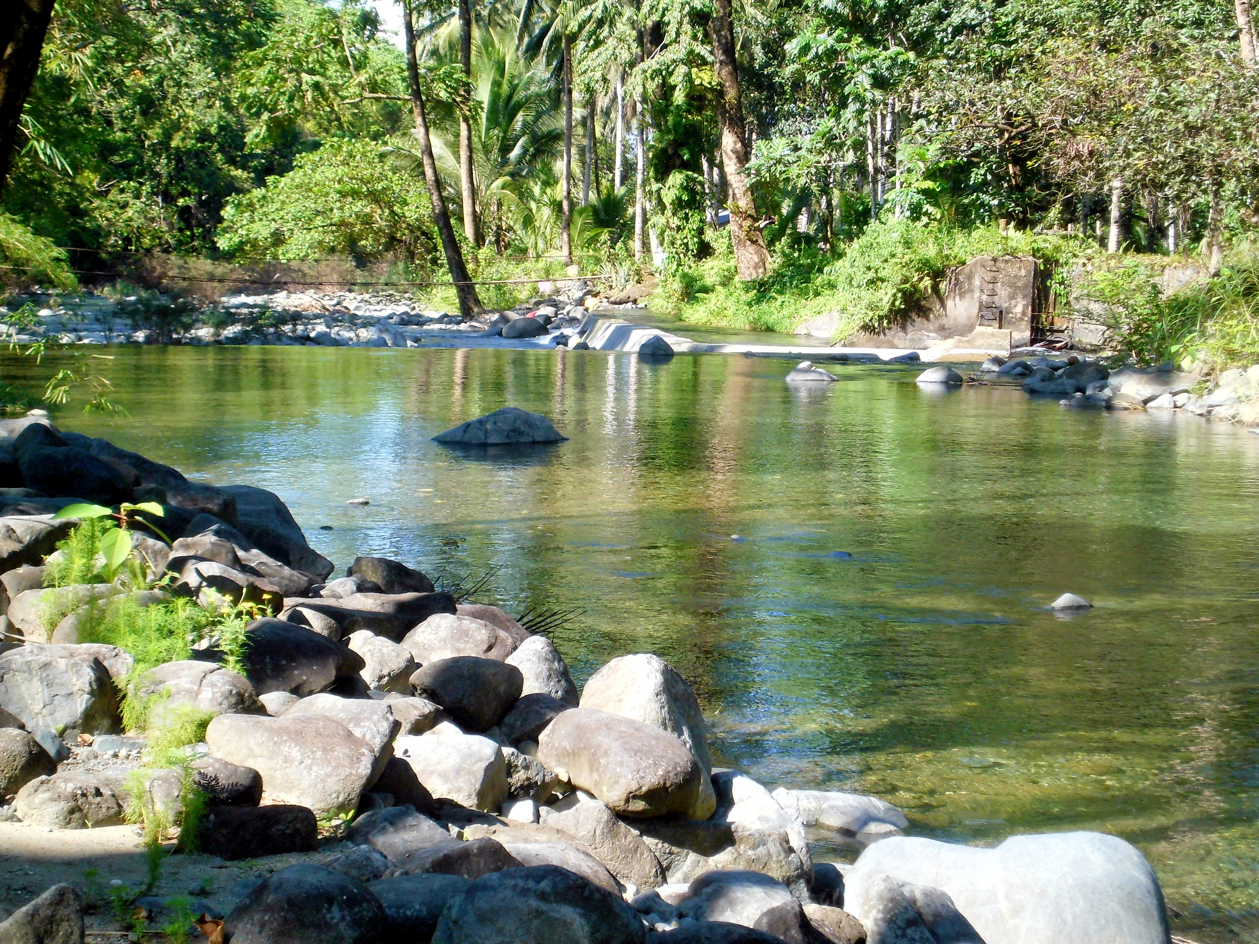 Jungle bath Malibu (Hubason), streamdown